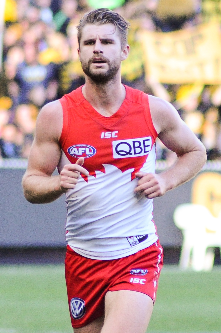 Harrison Marsh during the AFL round thirteen match between Richmond and Sydney on 17 June 2017 at the Melbourne Cricket Ground in Melbourne, Victoria.